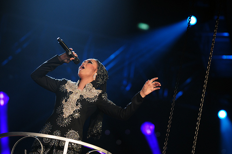 Siti Nurhaliza performing as the opening act for Anugerah Juara Lagu 24 (24th Song Champion) 2010.